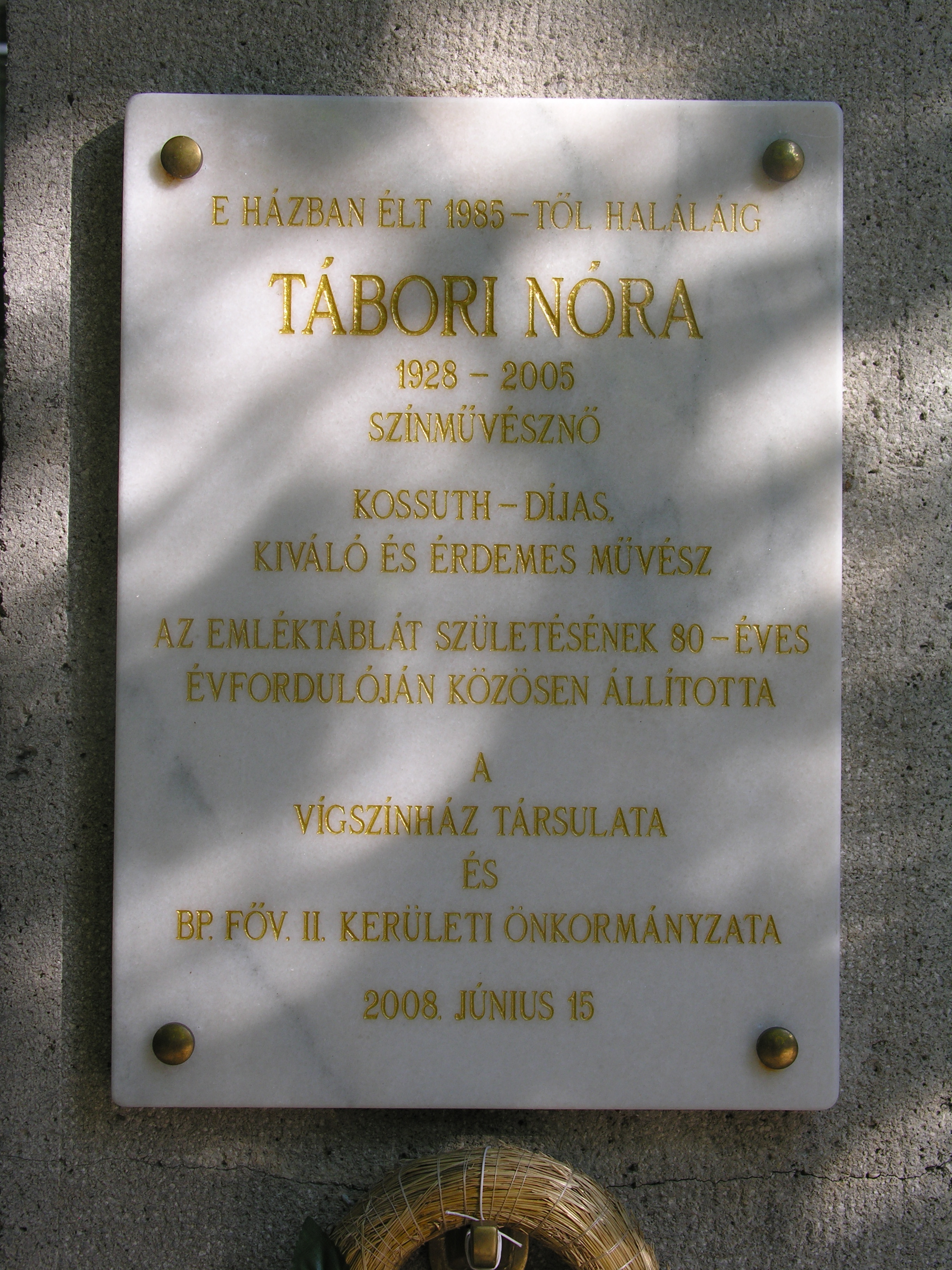 Commemorative plaque of Nóra Tábori in Budapest District II, Házmán Street No 7